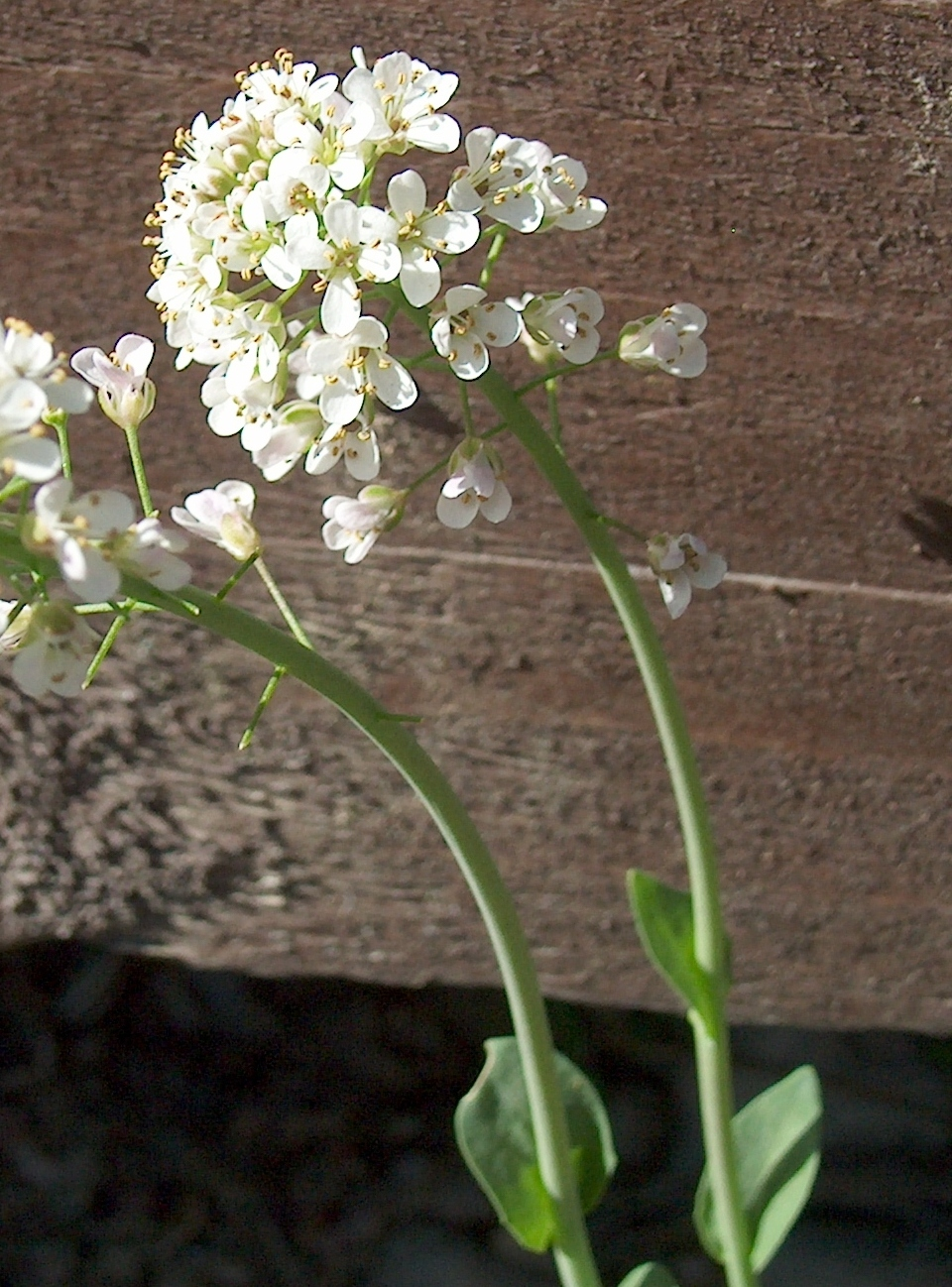 Alpine Pennycress, Thlaspi alpestre - Kerava, Finland 2008